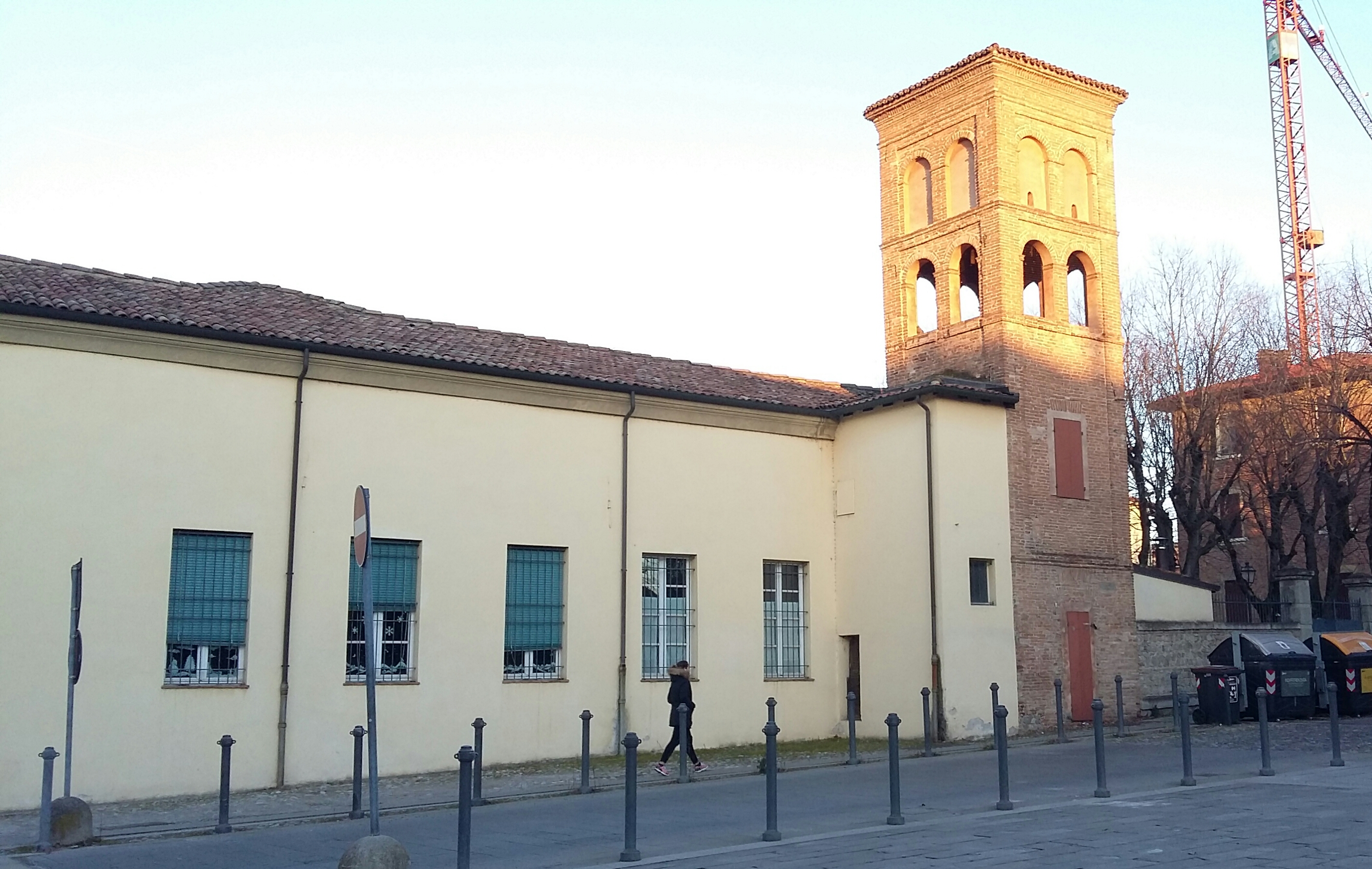 Saint Anne Church, Sassuolo (MO)